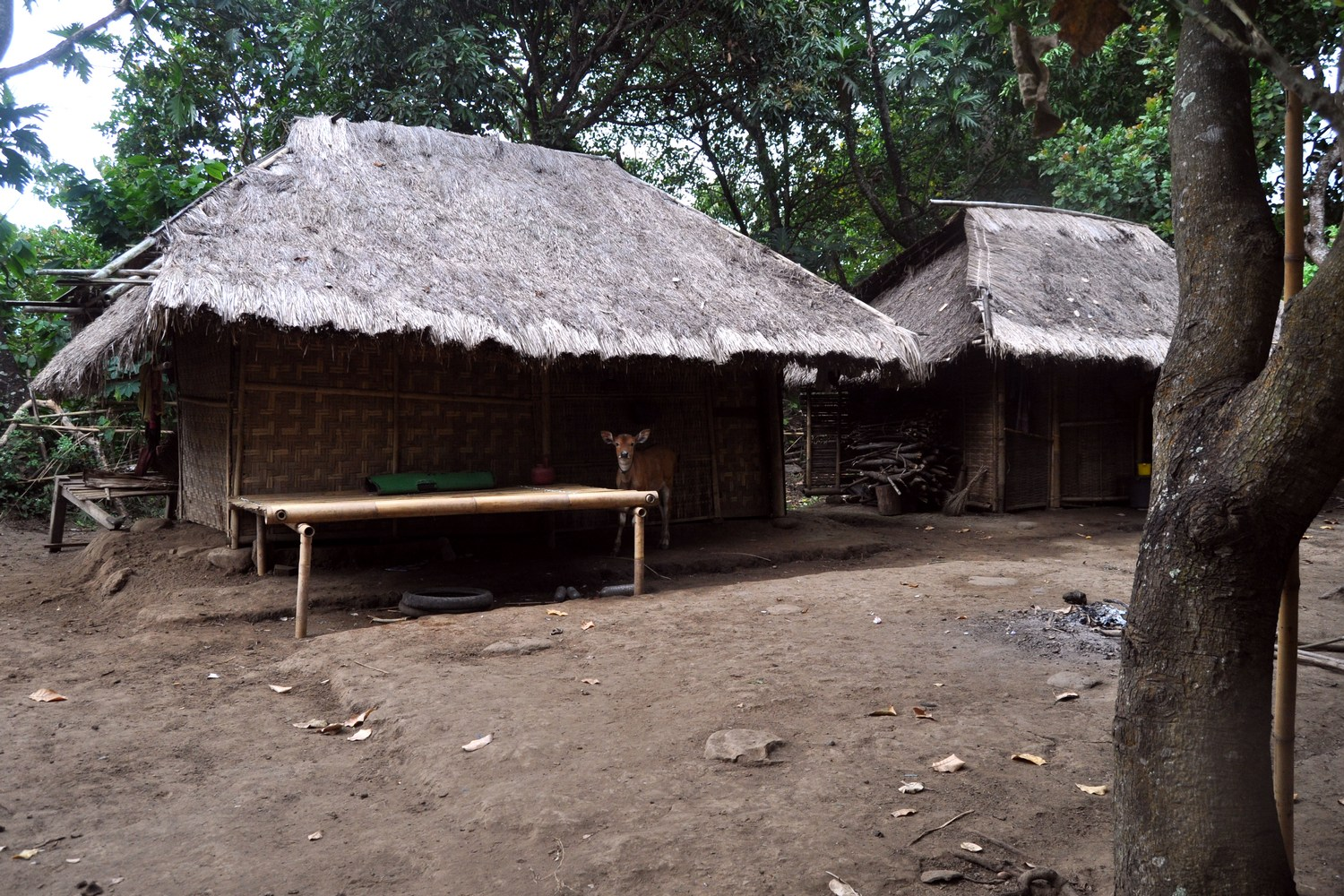 Bamboo house in Salut Village, North Lombok, Indonesia